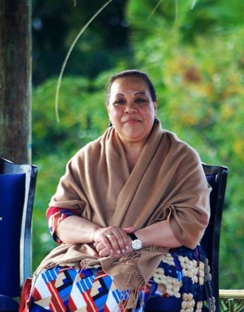 Queen Nanasipauʻu at the cultural festival for the coronation, taken from the civil stands